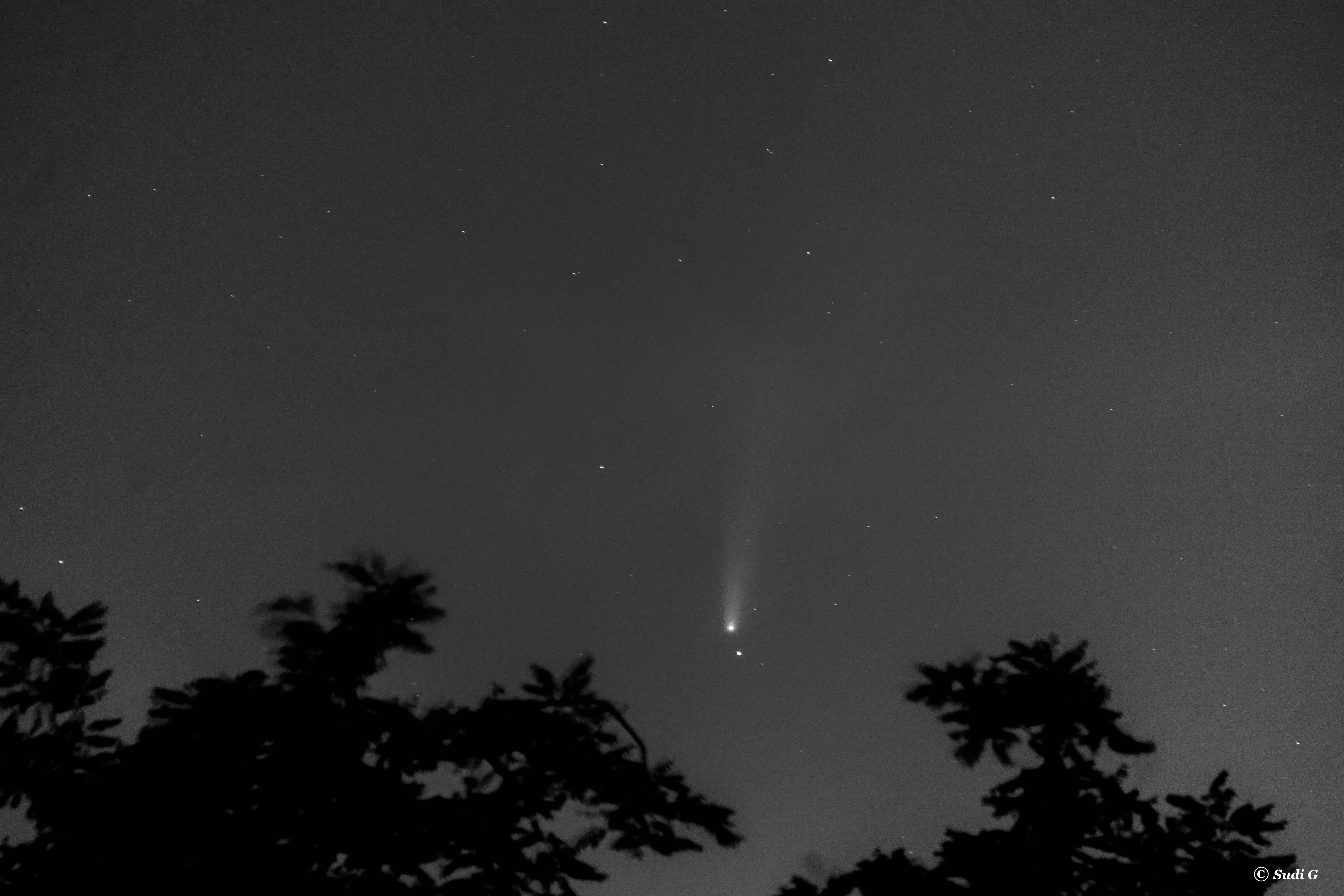 I, Sudarshan Gadadhar, took this image at Parc Montsouris, in the 14th district of Paris on the 18th of June, 2020. Image details: Sony a6000 camera fitted with the 55-210mm lens. The picture was taken at 210mm with an F6. 3, 6sec exposure and ISO3200